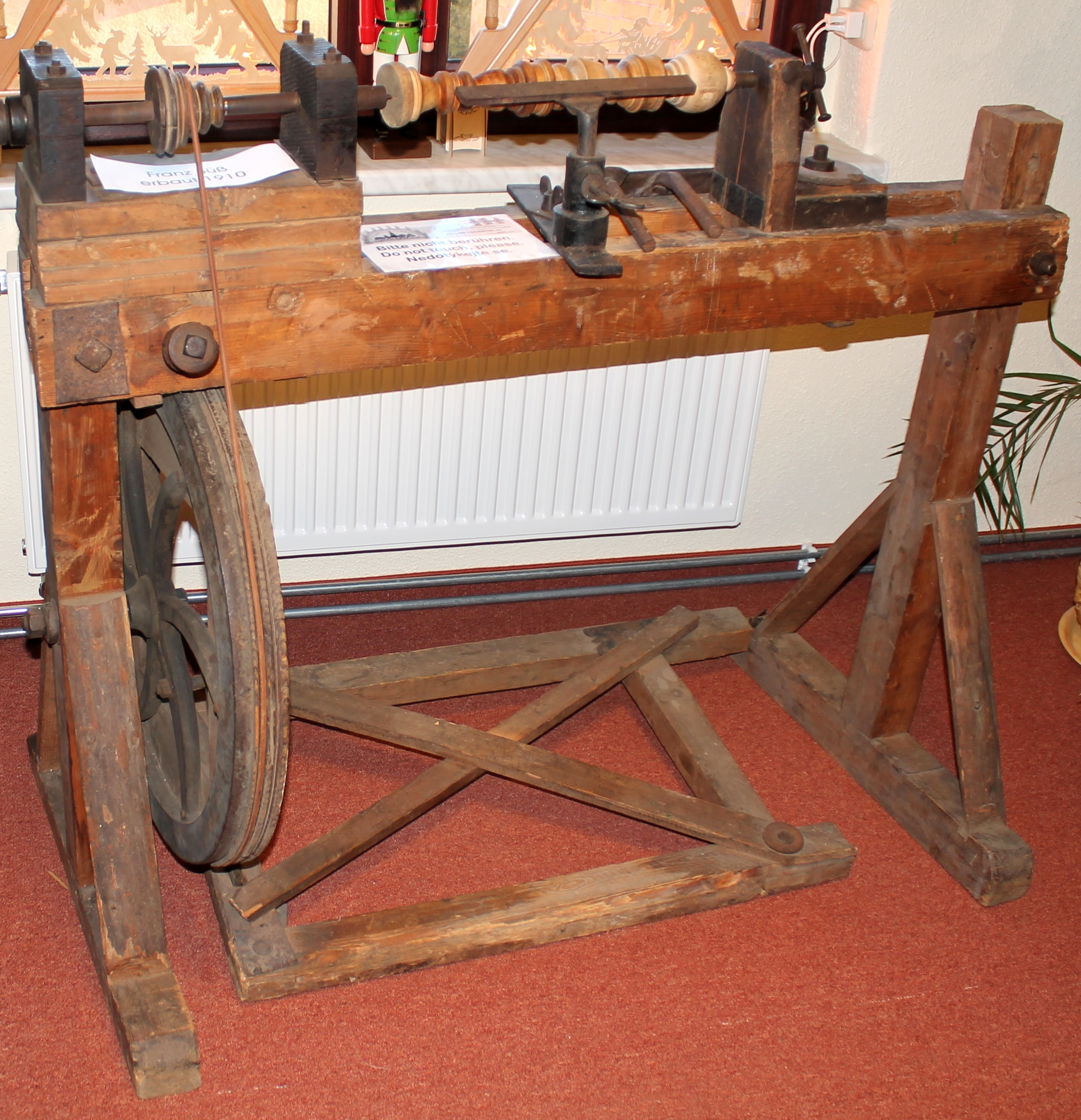 Foot-operated historic lathe in the smoker Museum Crottendorf, Saxony, Germany.